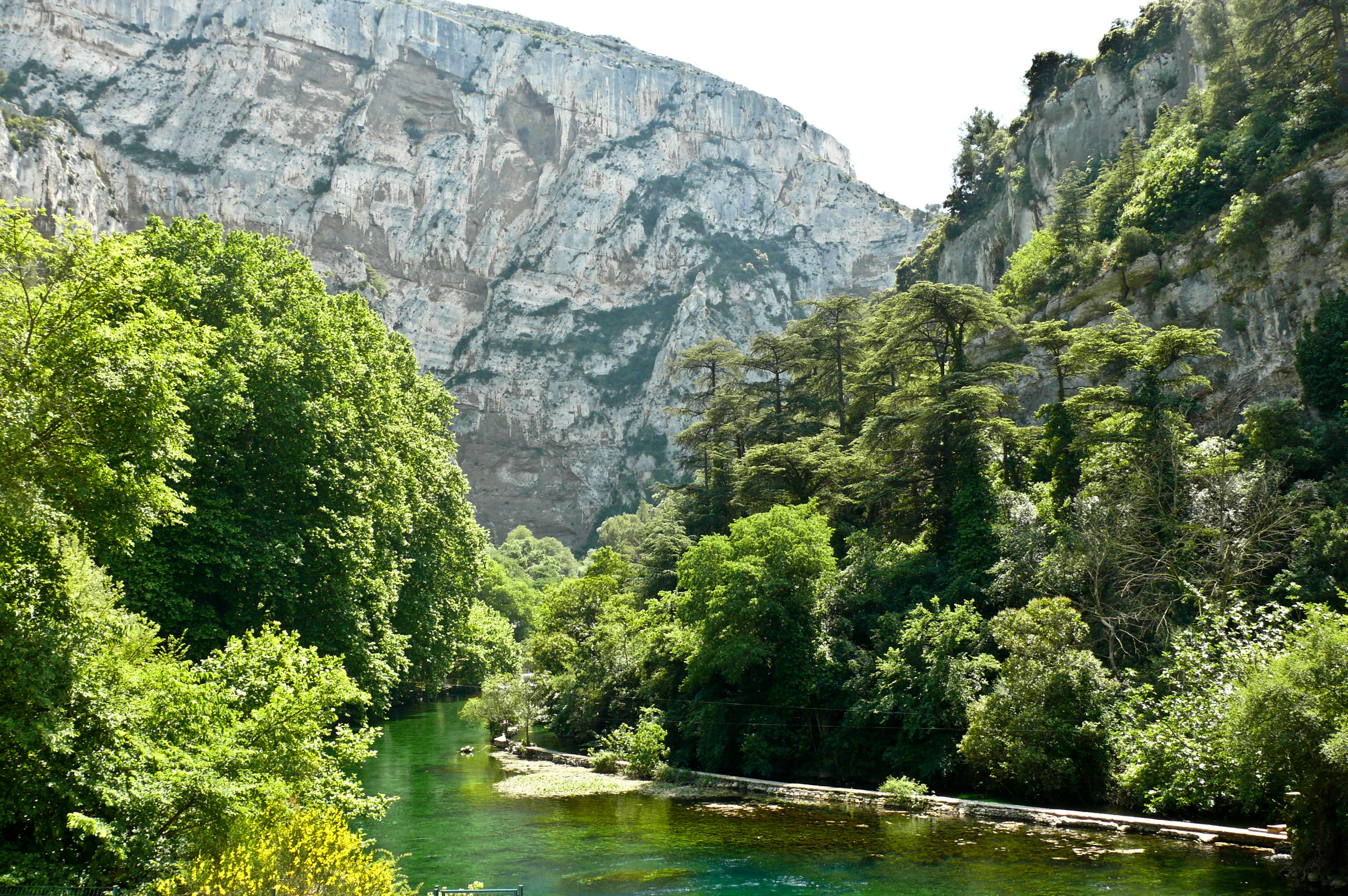 Fontaine-de-Vaucluse, Provence